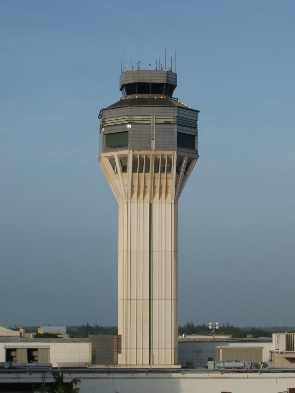 This in an overview of San Juan Tower. Taken by myself, the user. Approved for use